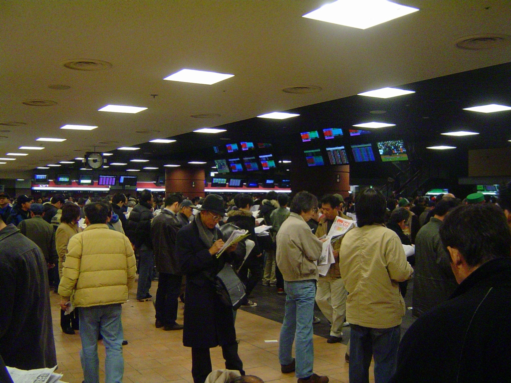 Tokyo Racecourse in Fuchu, western Tokyo, Japan